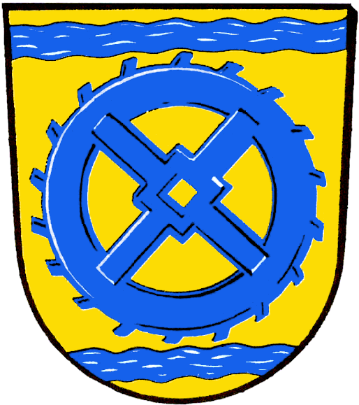 Coat of Arms of Samtgemeinde Flotwedel